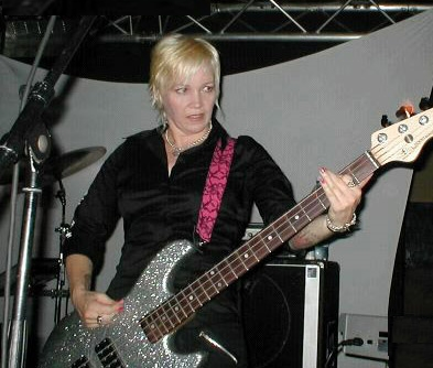 Alice Genese of Psychic TV live in Cologne, Germany, 2004